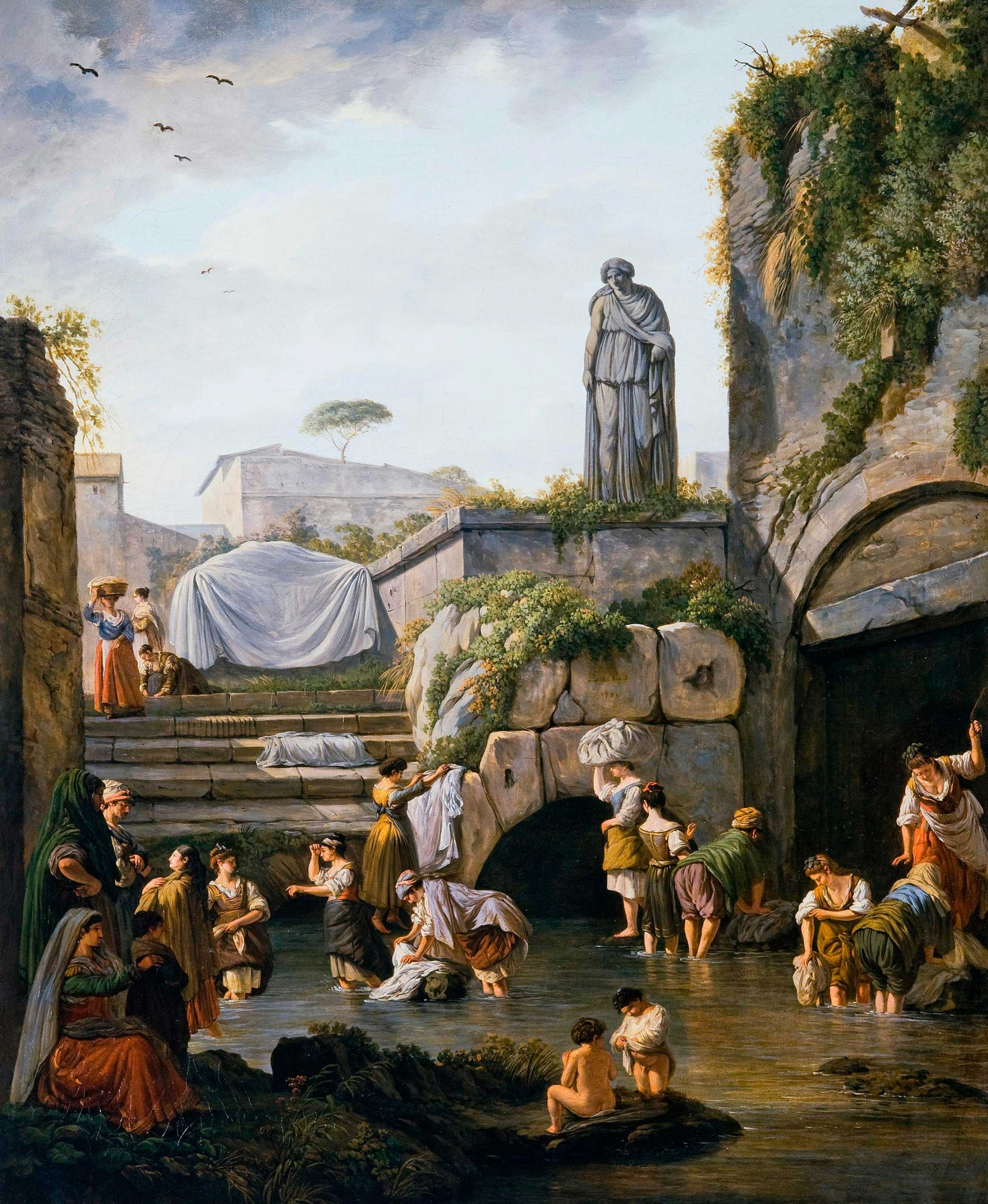 Painting: Arethusa's Fountain in Sicily (Syracuse), 1781